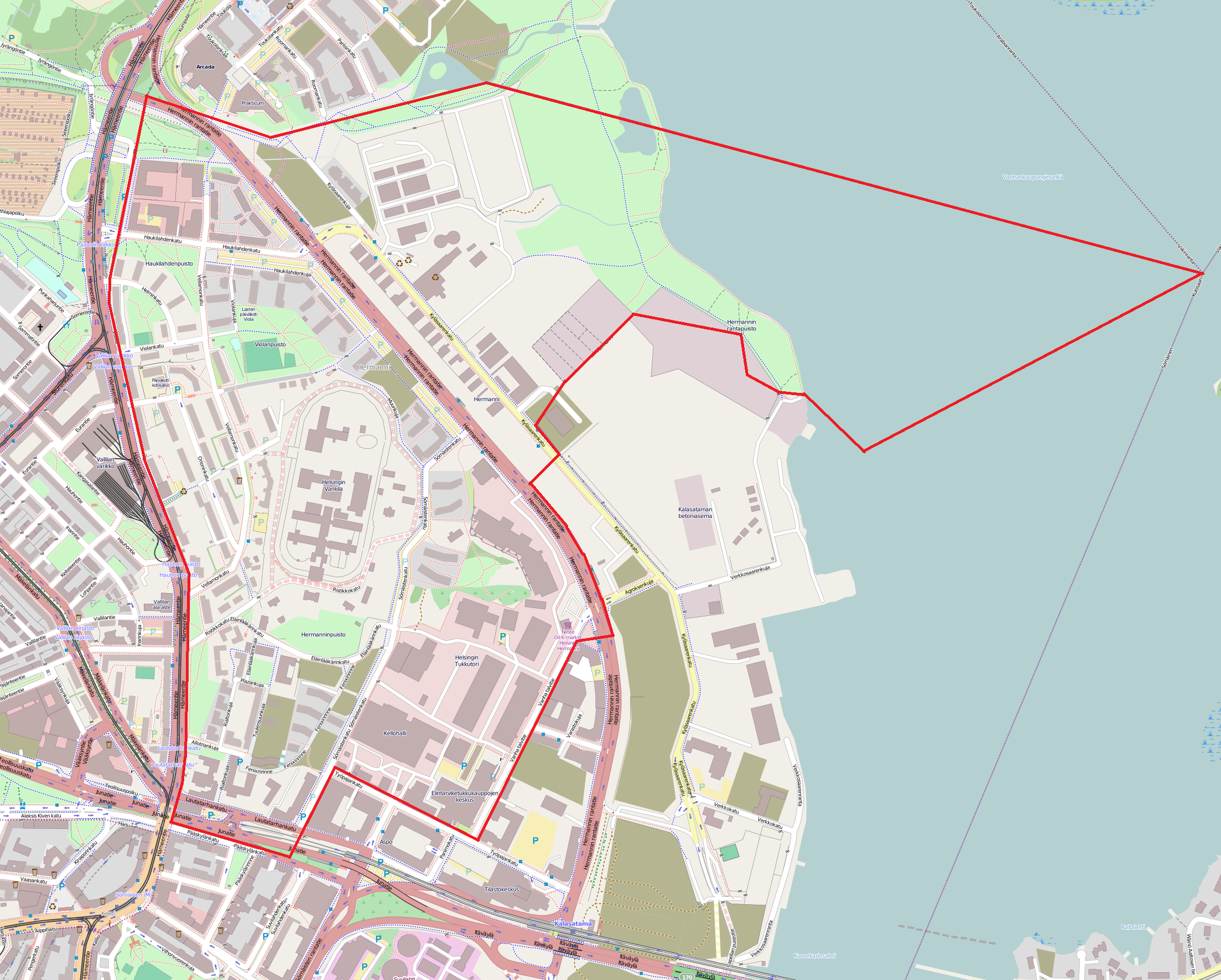 Helsinki district Hermanni (Hermanstad); OpenStreetMap 2013